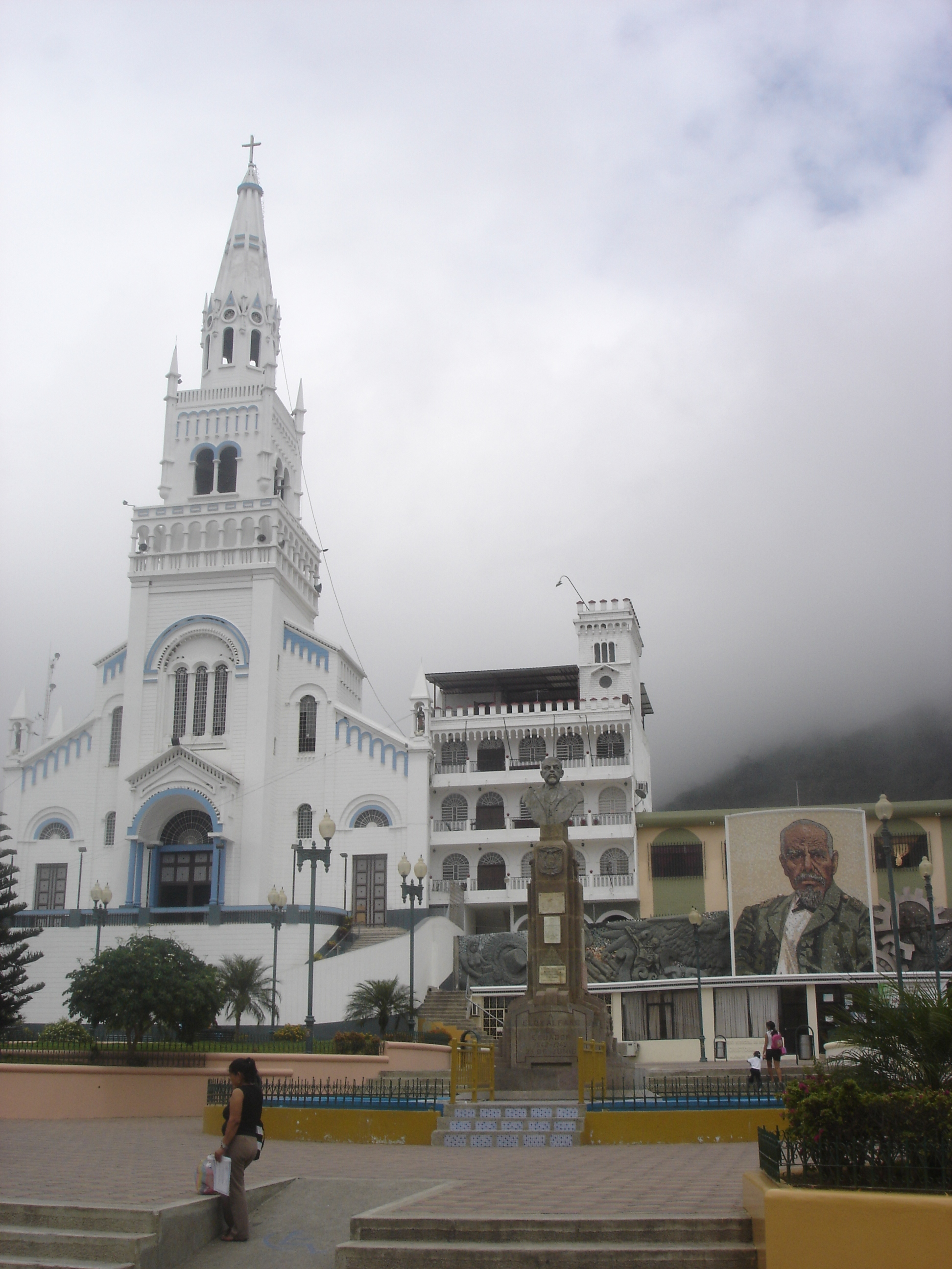 Main square of Montecristi, Ecuador. Visible : a statue and portrait of General Eloy Alfaro, and the church.